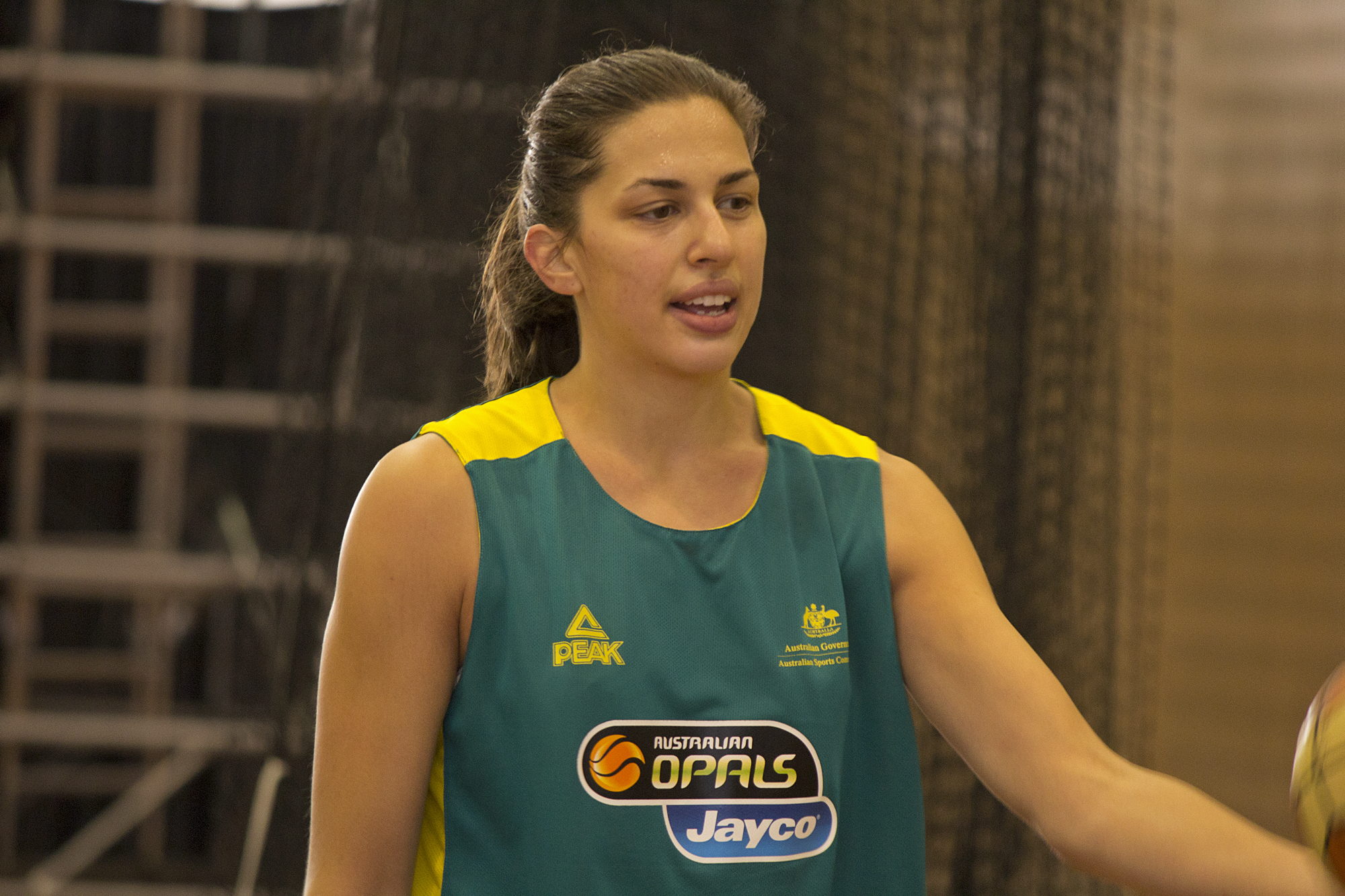 Marianna Tolo at day two of the Opals camp.